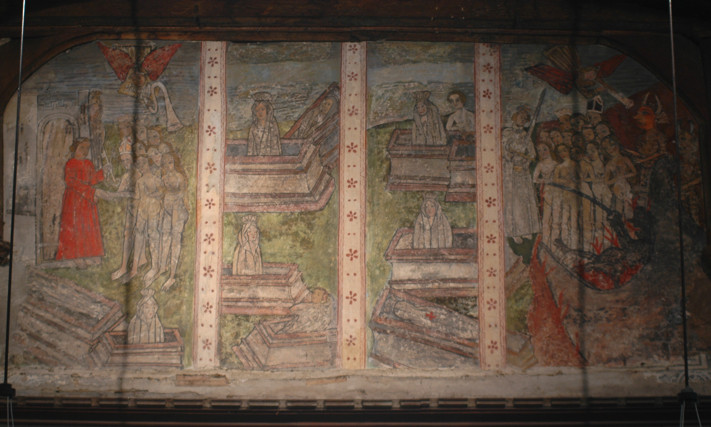 15th-century Doom painting at the east end of the nave in St Mary's parish church, North Leigh, West Oxfordshire